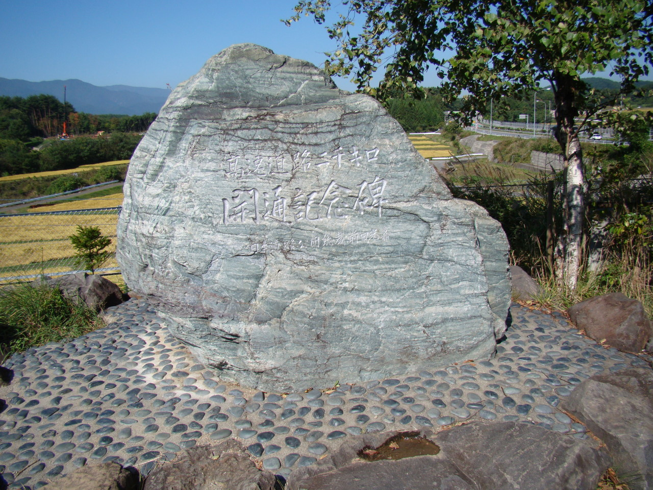 Monument for achieving 2,000 kilometres of highways in Japan, installed at Yatsugatake Parking Area on the Chuo Expressway